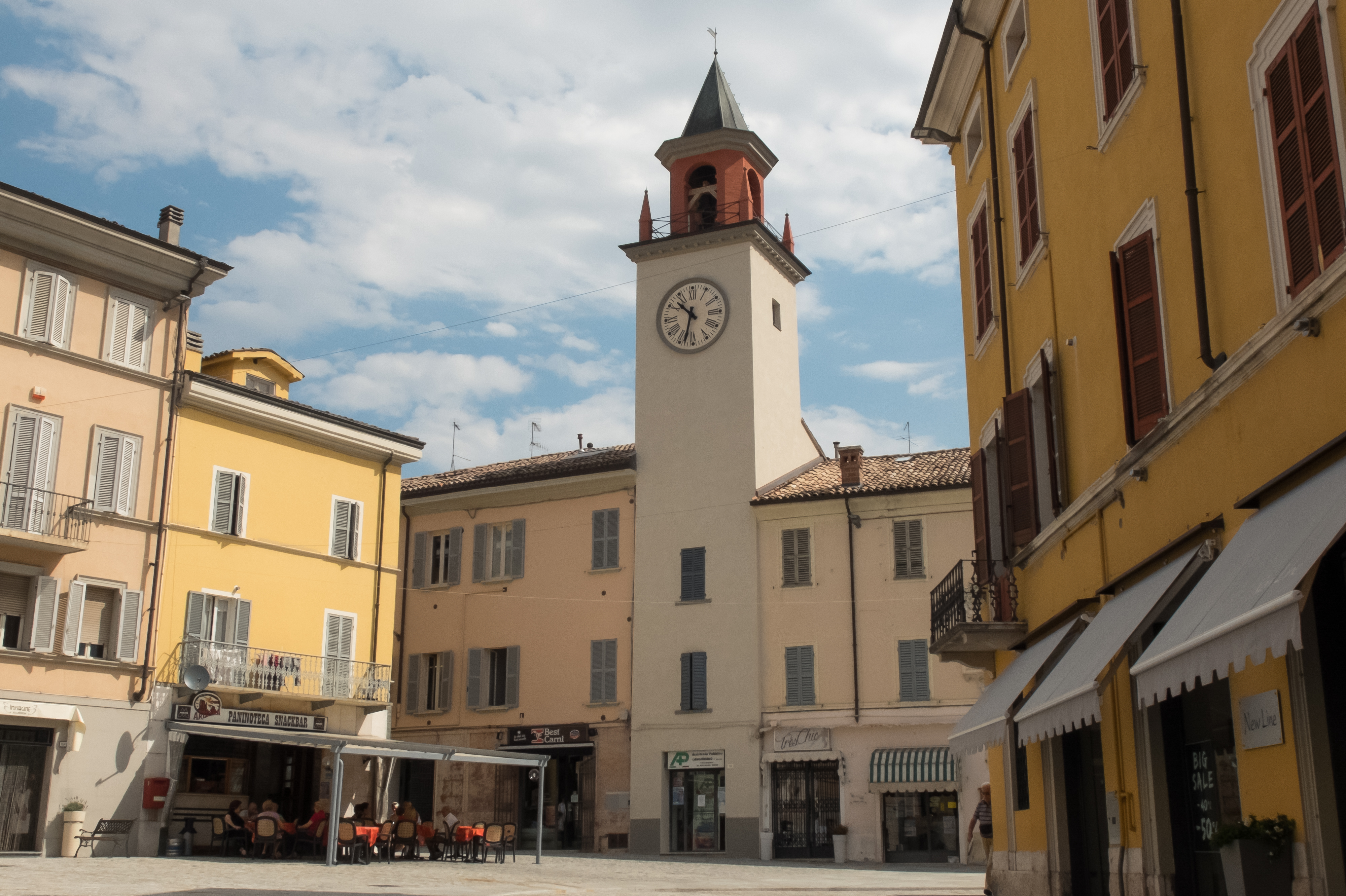 View of main place